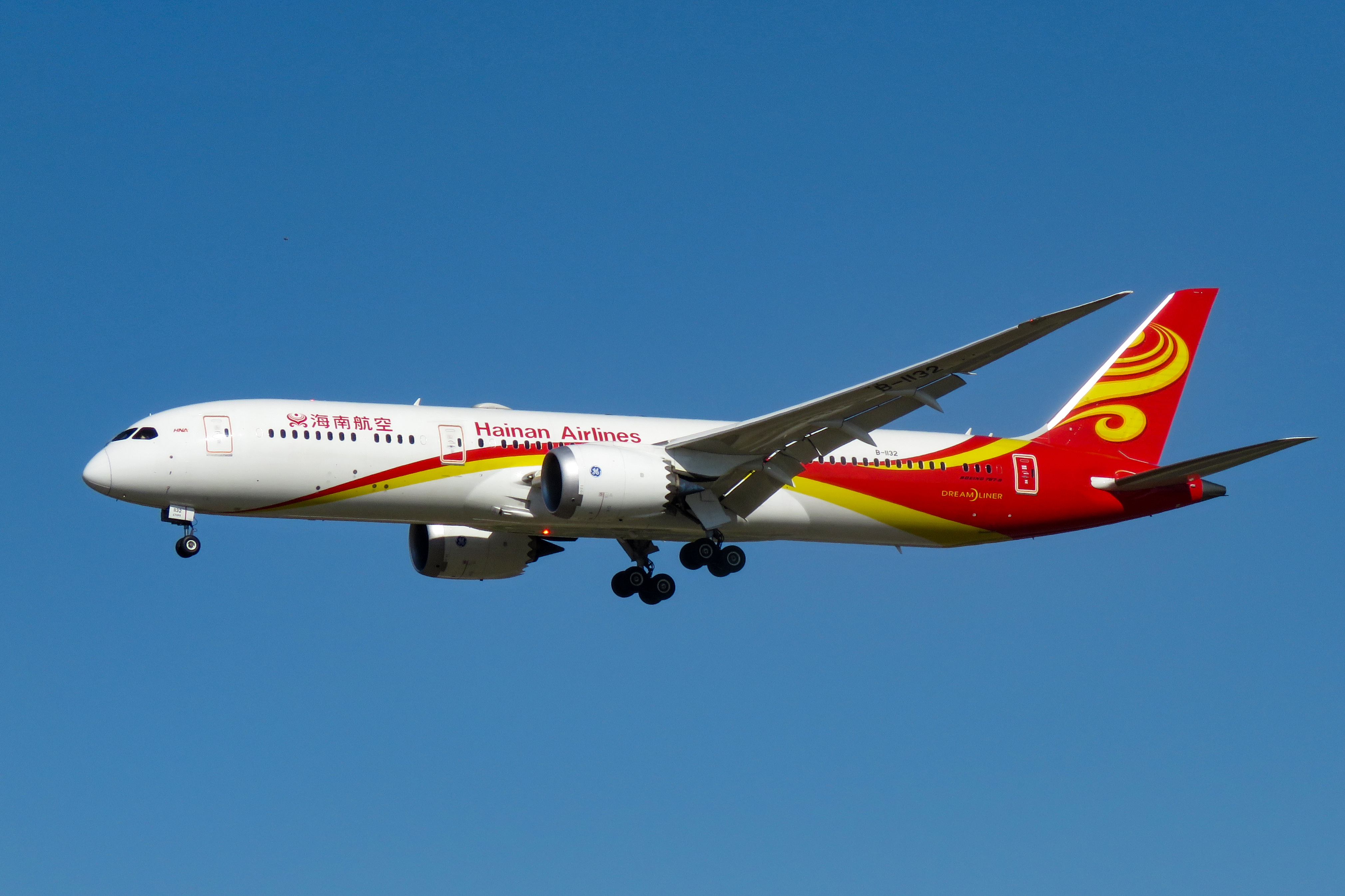 Hainan 496 from Seattle.